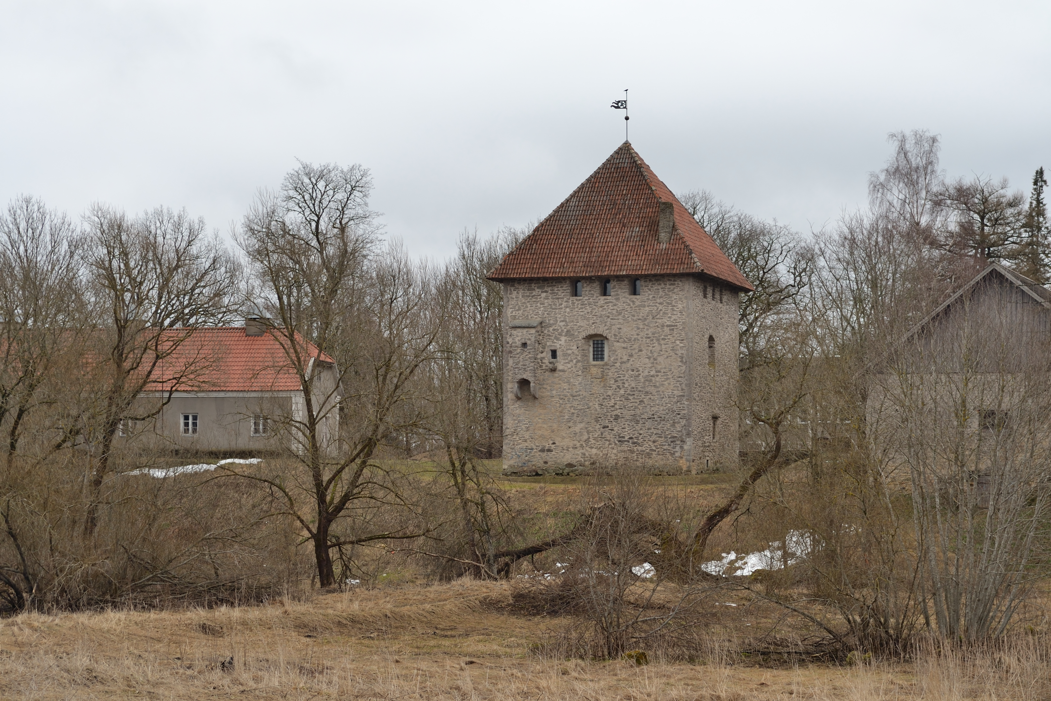 Vao Castle